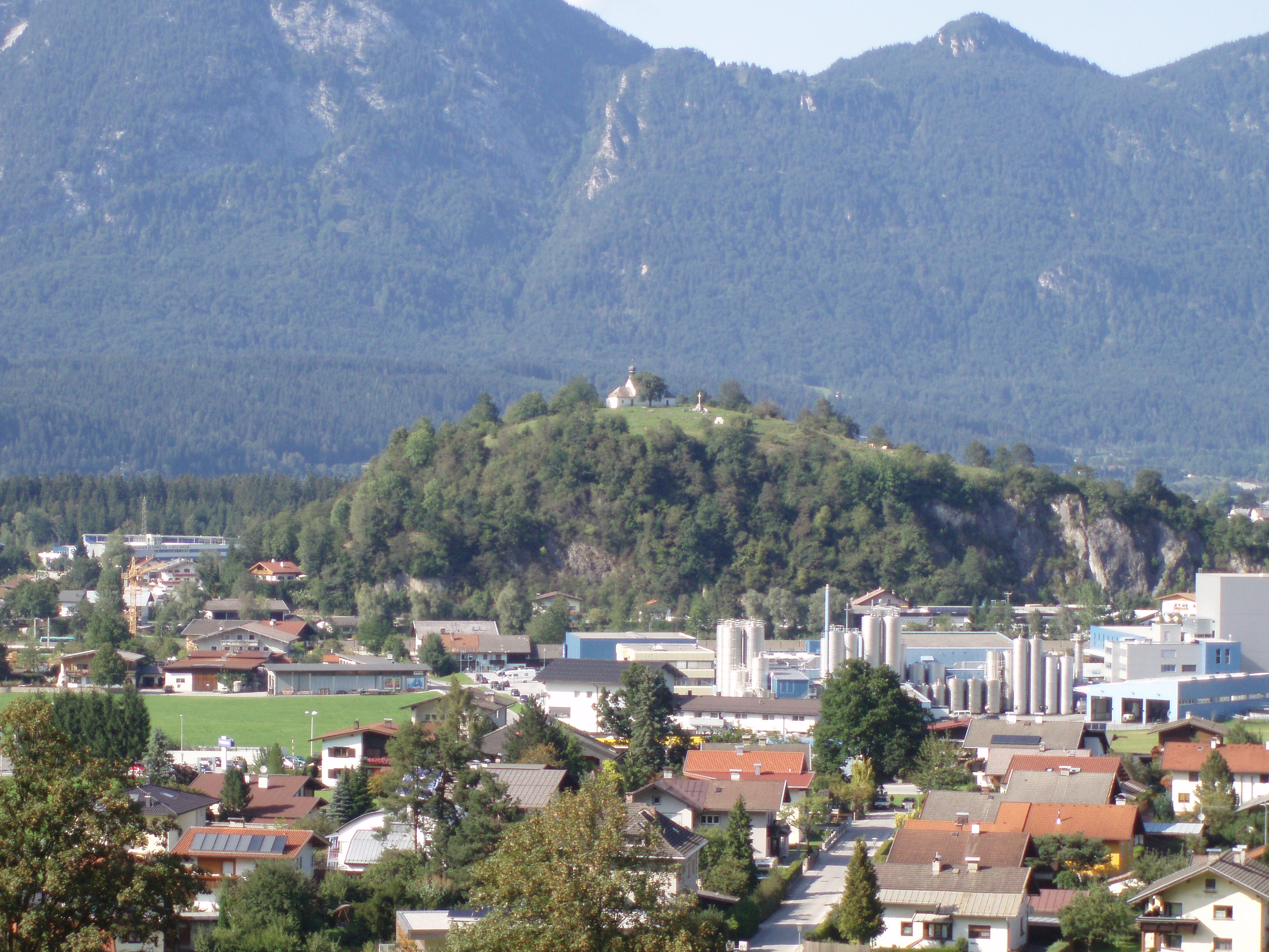 The small hill of Grattenbergl in Kirchbichl, Tyrol, Austria